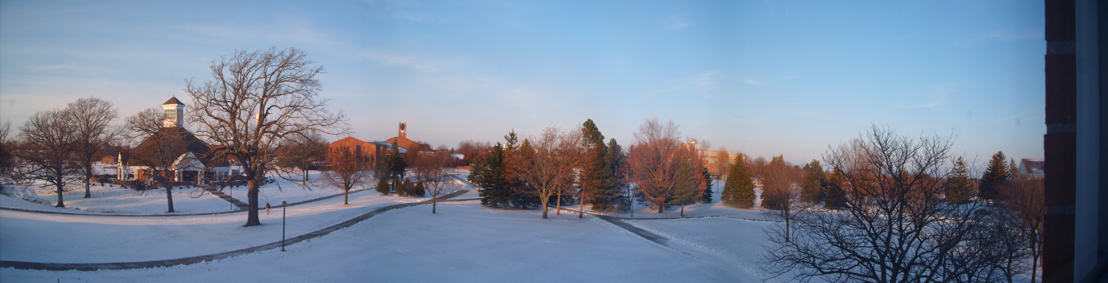 View from my dorm room